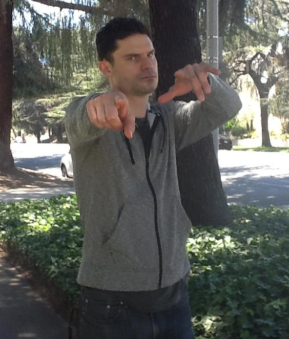 Flula Borg, taken in the Los Feliz district of Los Angeles on 24 July 2014